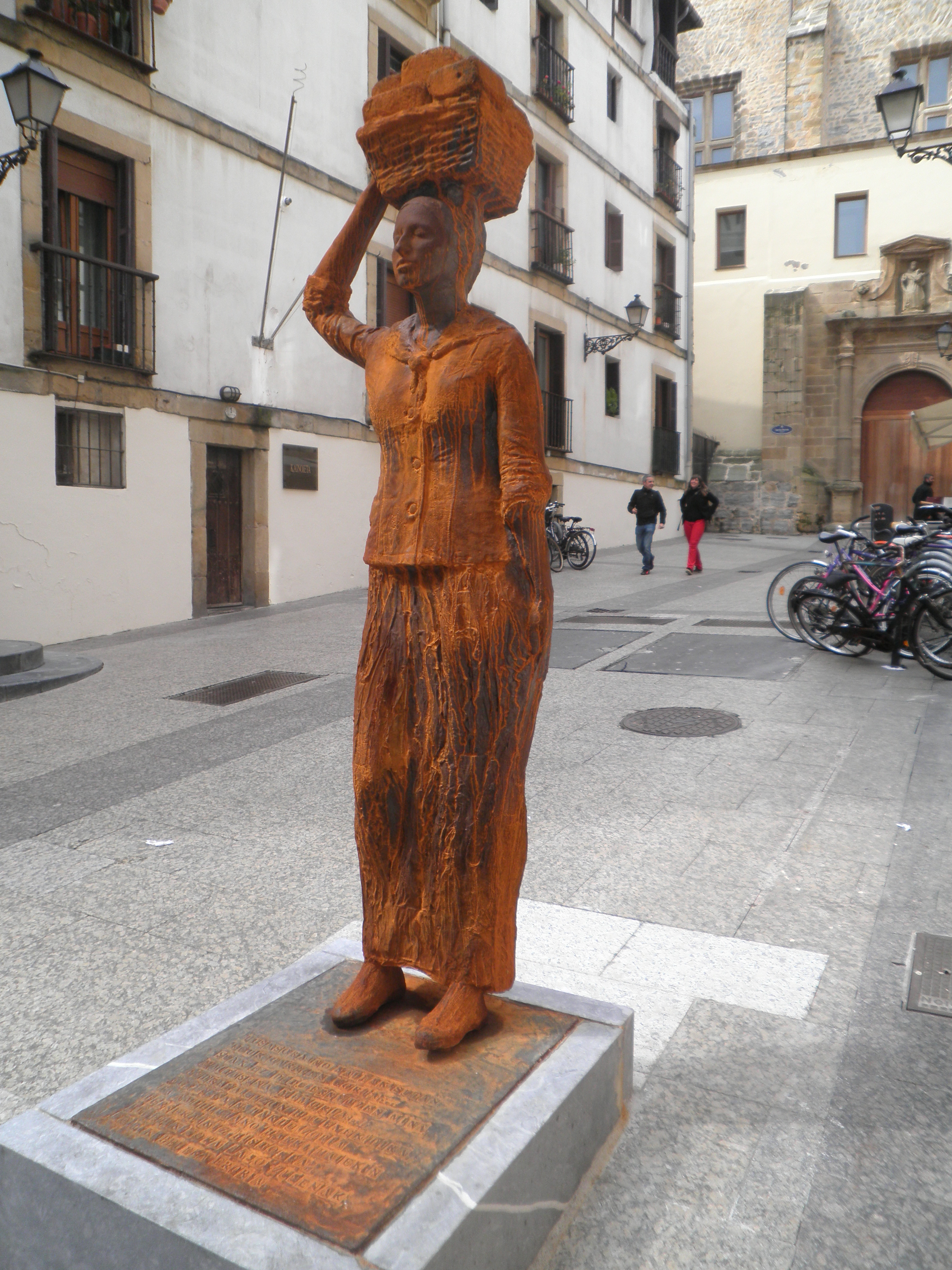 Sculpture in Alde zaharra.